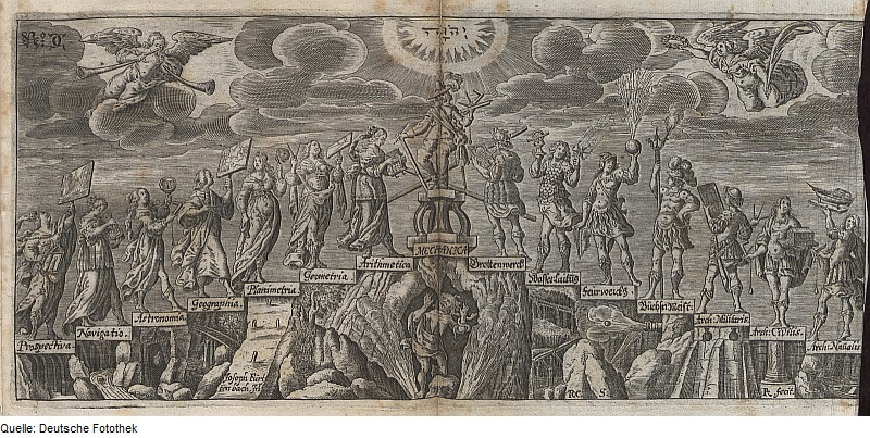 Original image description from the Deutsche Fotothek Mechanik & Bibliographie